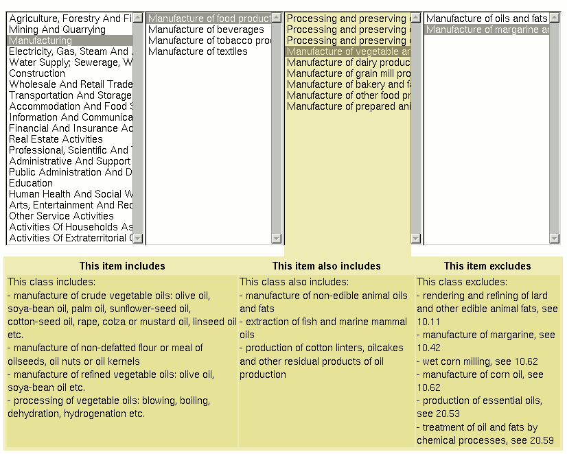 This is a screenshot sketch of possible design of NACE chooser, allow user to choose one classification from NACE. Users are supposed to choose level after level from left to right. The screenshot shows when user is choosing the 3rd level, the whole level is highlighted with the detail explanation text of currently selected business classification.